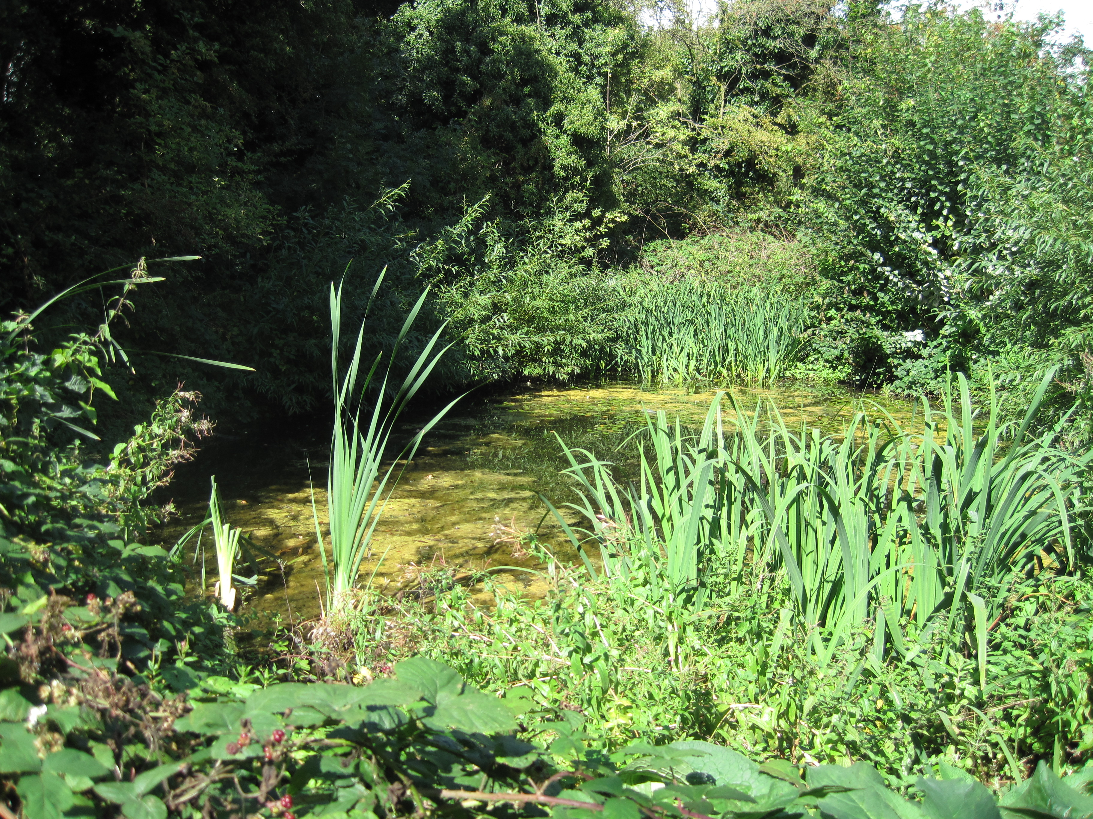 Pond at Glebelands nature reserve, Friern Barnet, London